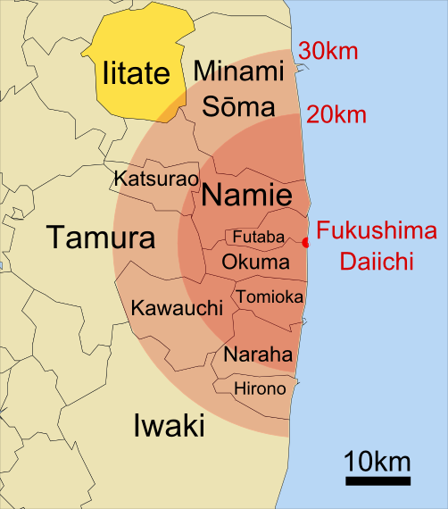 Localisation of Iitate with regards to the Fukushima-Daiichi evacuation zones